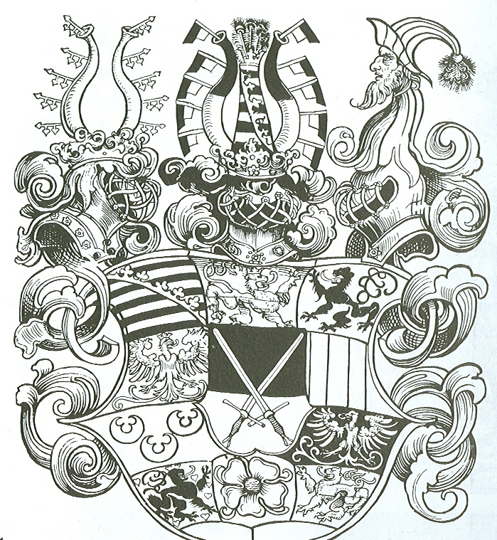 Coat of arms of the Elector of Saxony before 1806.